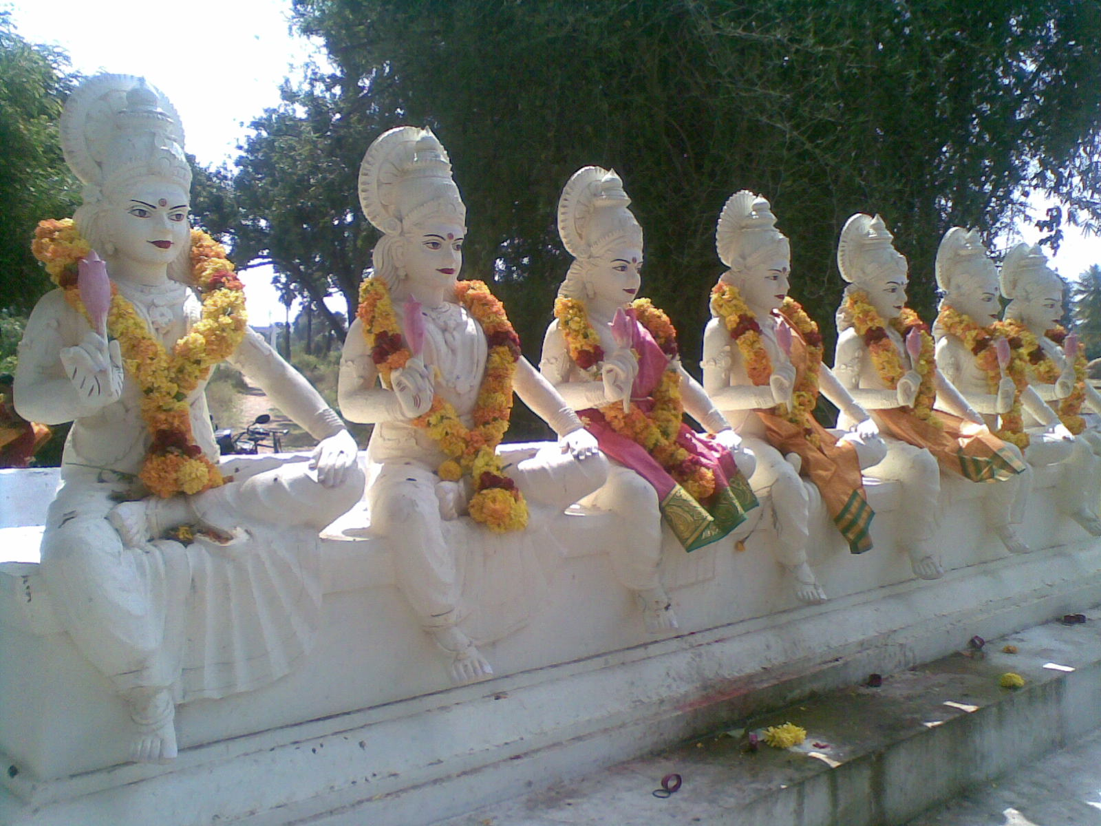 Location: This photo depicting Ezhu kanniyar worship in Samparappan temple.Kallakurichi Block, Villupuram District, Tamil Nadu State, India.